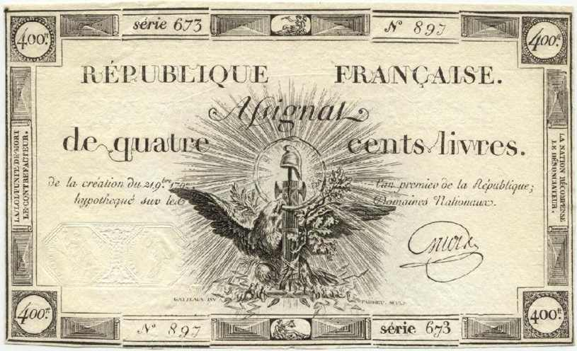 First assigant of the 1. french Republique. First with new automatic numbering. (left number)